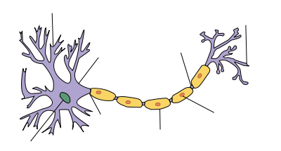 Diagram of neuron with arrows but no labels. Made using FireFox and GIMP from Neuron.svg by Dhp1080.